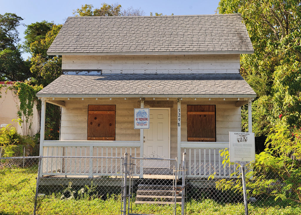 Mariah Brown House - Miami A sample of conch house architecture.